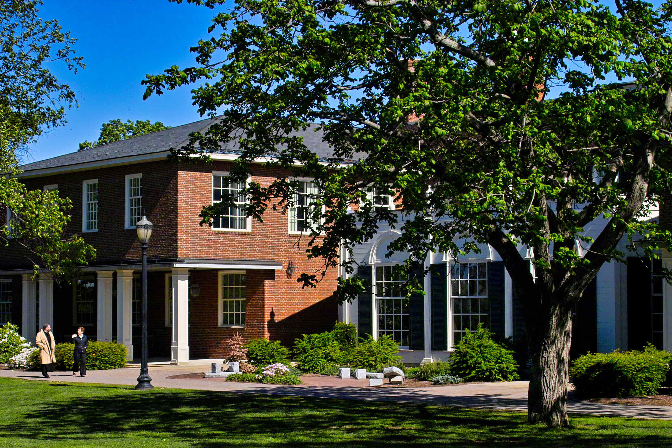 science building shot 2